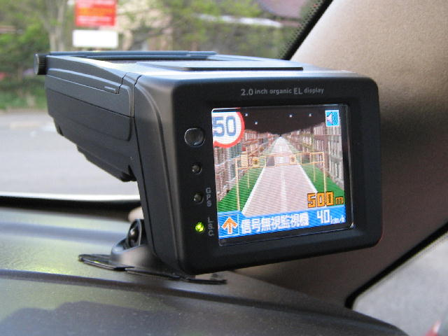 Radar detector (Car) ASSURA "AR-210VE". made by "CELLSTAR" in Japan. Display is Demo movie